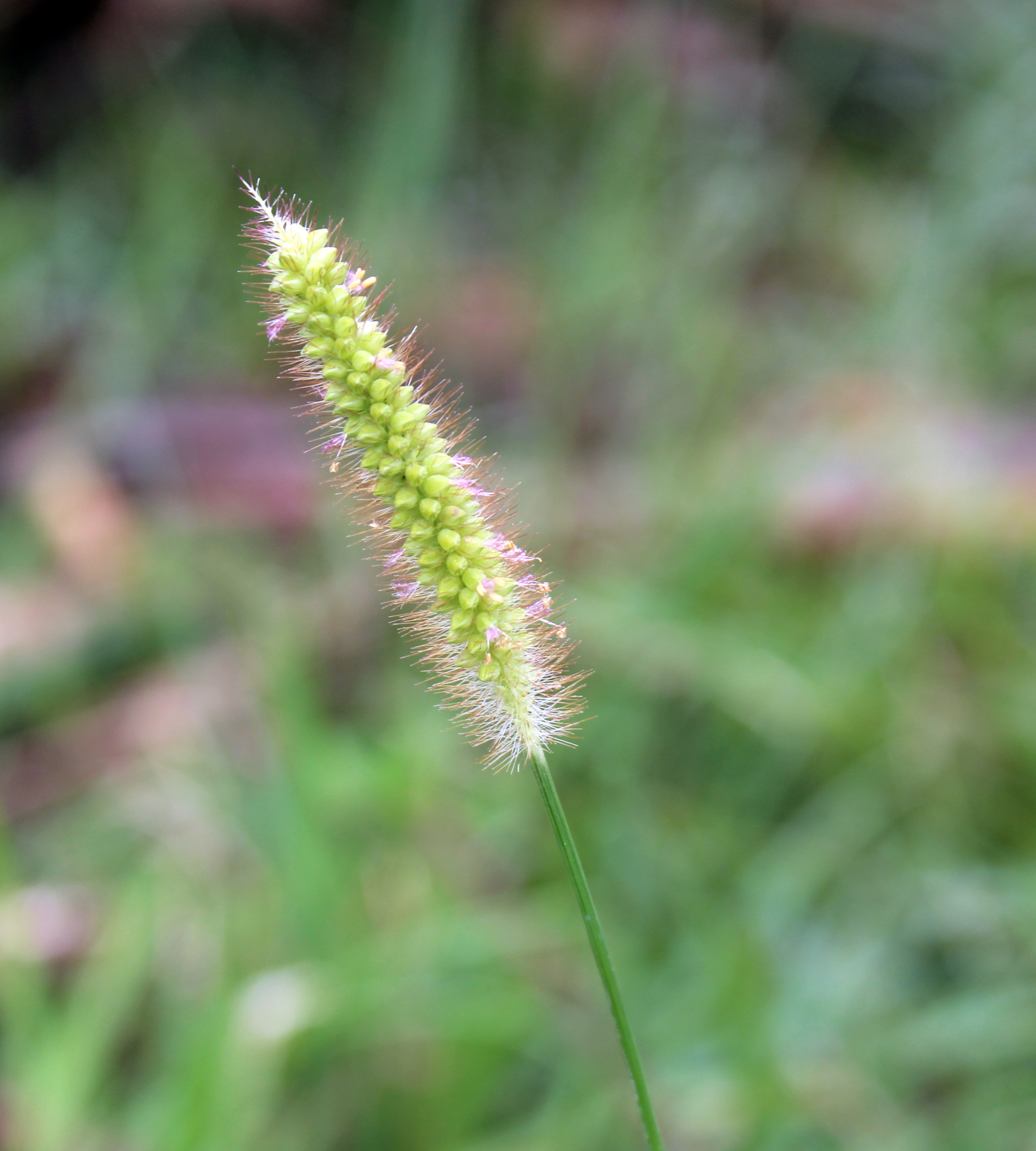 Inflorescence of Anthephora pubescens at Rajbiraj, Saptari, Nepal